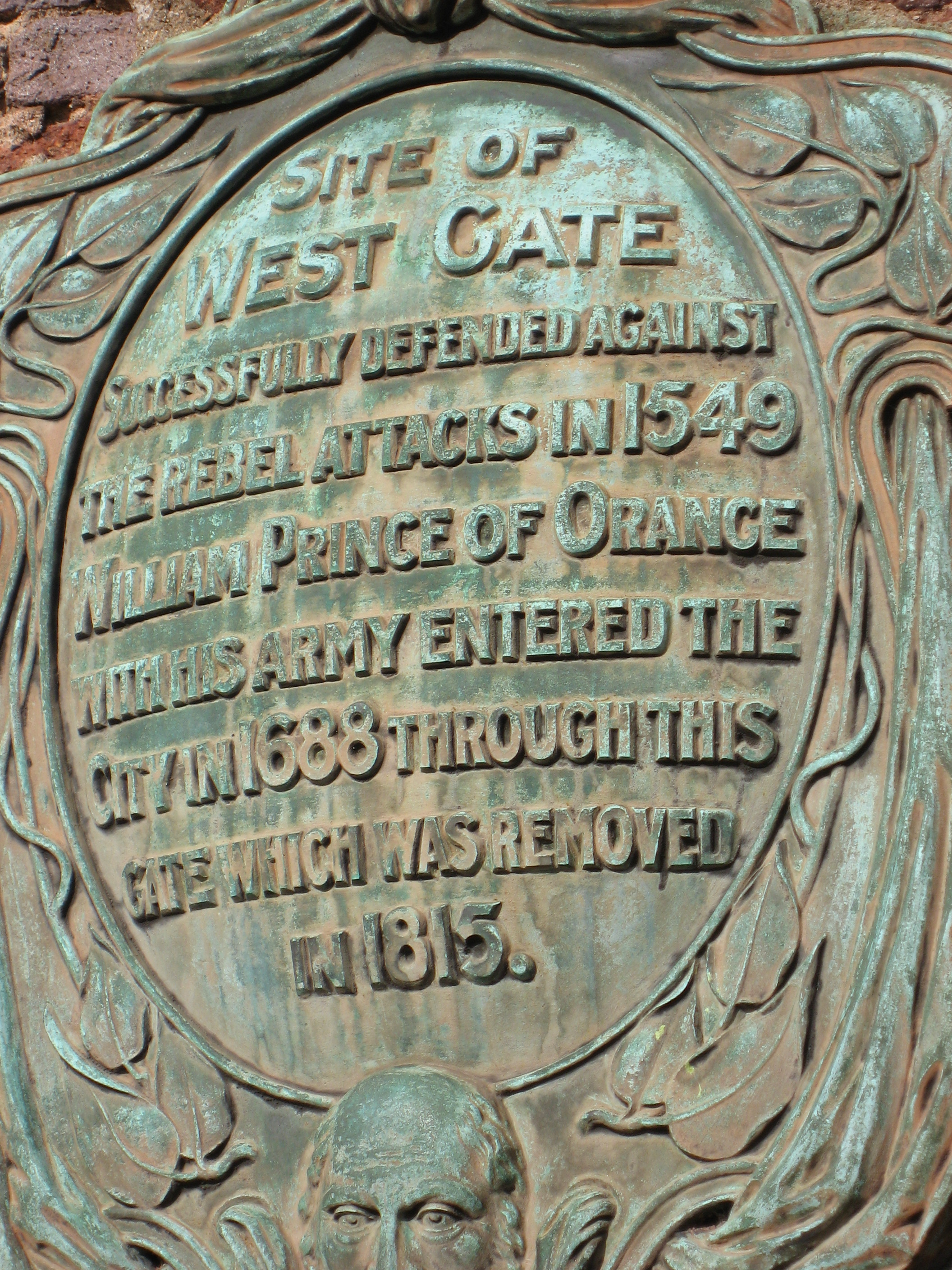 Plaque at the foot of West Street, Exeter, commemorating the site of the former West Gate of the city